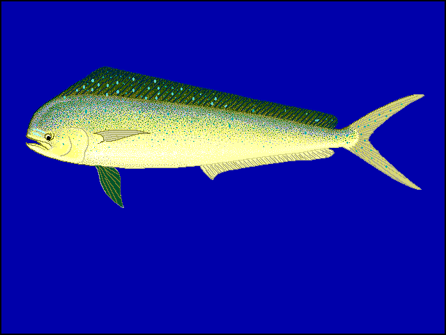 Coryphaena hippurus